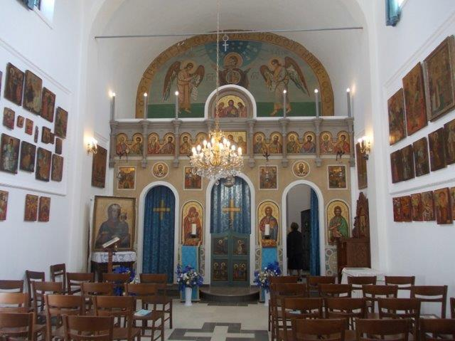 Santa Maria Assunta in Villa Badessa - inside view